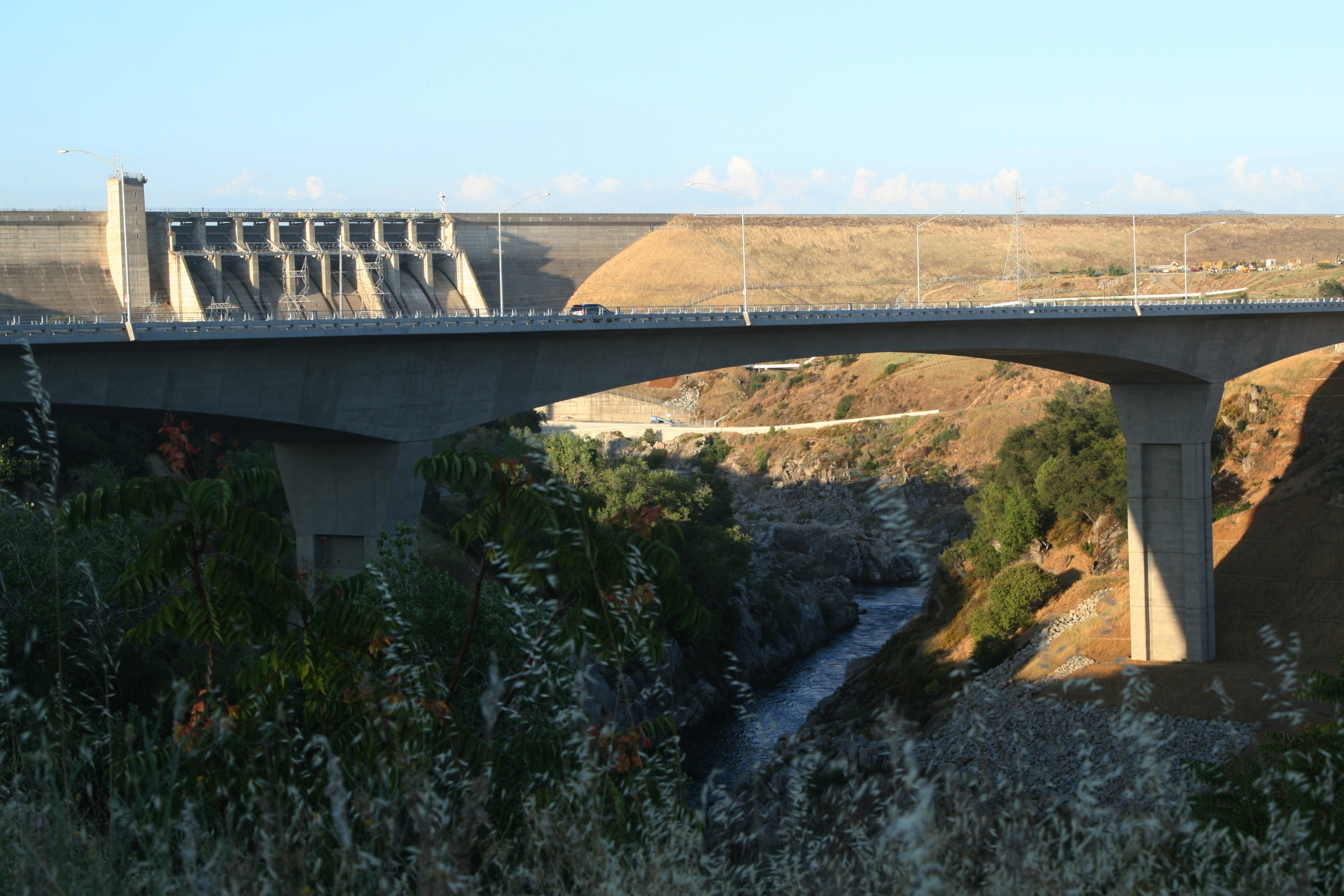 The new Folsom Lake Crossing bridge over the American River below Folsom Dam. The bridge was opened in March 2009.